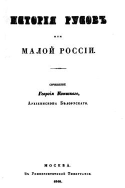 Cover of "History of Rus'"